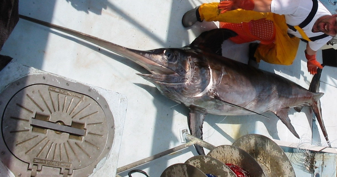 Large swordfish (Xiphias gladius) on deck during long-lining operations